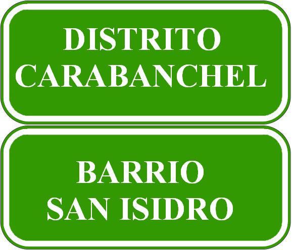 IndicadorBarrioSan_Isidro